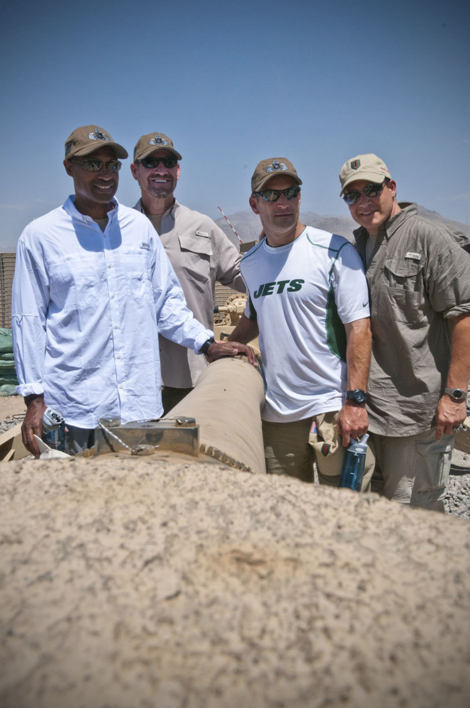 Head coach Leslie Frazier, of the Minnesota Vikings; former head coach Bill Cowher, of the Pittsburgh Steelers; Special teams coach Ben Kotwica, of the New York Jets and Eric Mangini, former coach of the Cleveland Browns and New York Jets take pictures with a M777 lightweight 155mm howitzer on July 3. The coaches were a part of the National Football League-United Service Organizations coach's tour to visit servicemembers in Afghanistan. (Photo by U.S. Army Staff Sgt. Terrance D. Rhodes, RC-East PAO)